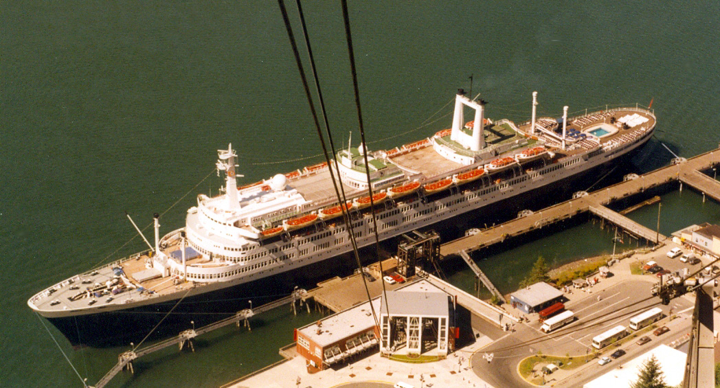 "SS Rotterdam...from the cable car to Mt. Roberts in Juneau. It was the fifth Holland America Line ship called the Rotterdam. It was in transatlantic service from 1959 to 1969, then converted to cruising. The ship carried about 1,000 cruise passengers. It was retired by Holland America at the end of this season (1997)."